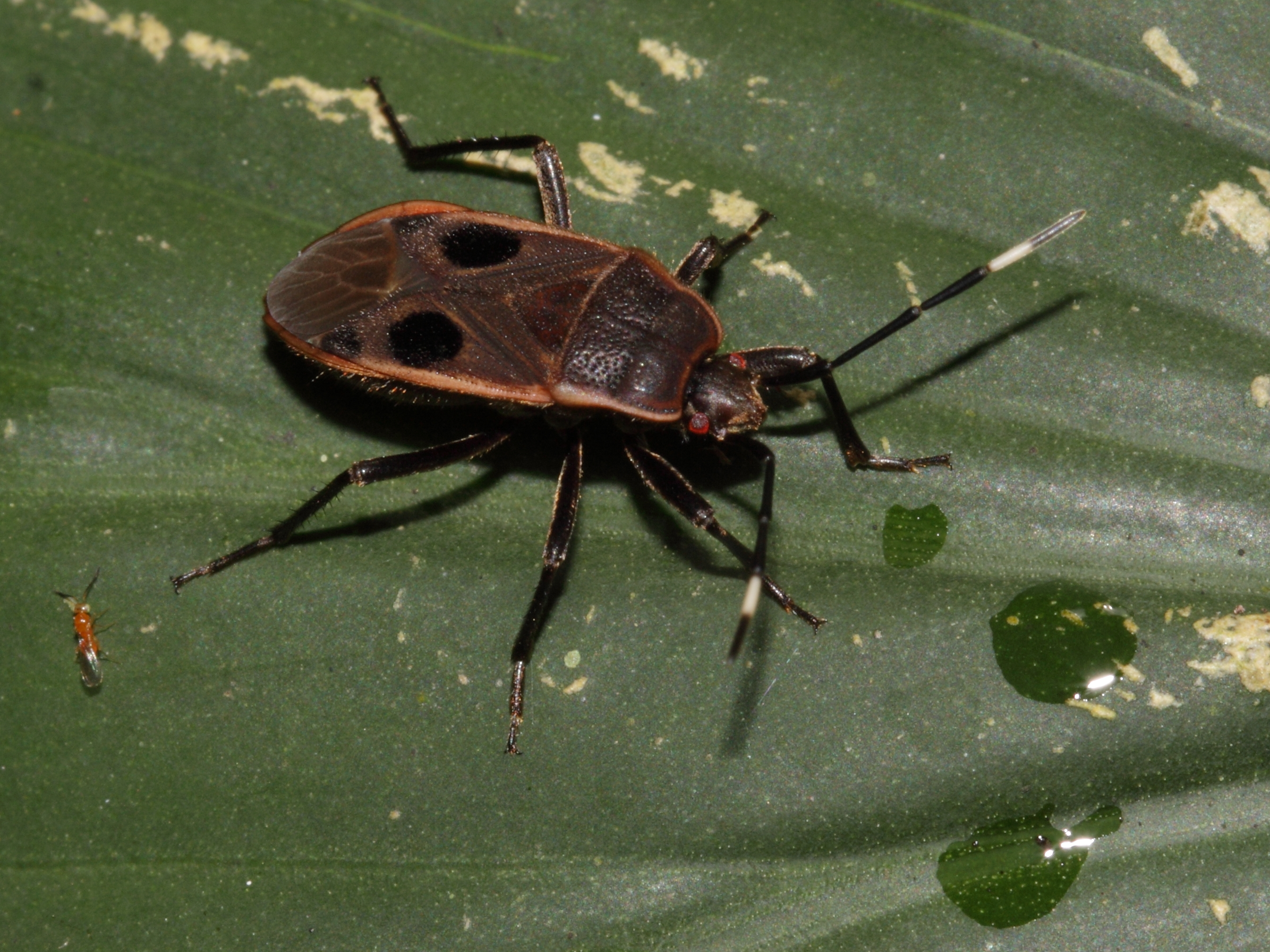 The bugs in this family are generally ground-dwelling or they scramble around in plants, bushes and trees. They are phytophagous, feeding on plant juices and seeds more info: Genus: Physopelta Family: Largidae (Bordered Plant Bugs) Superfamily: Pyrrhocoroidea Infraorder: Pentatomomorpha Suborder: Heteroptera (real bugs, Wanzen) Order: Hemiptera (true bugs, Schnabelkerfe) Class: Insecta Phylum: Arthropoda Indonesia, W-Java, Serang, vic. Bulakan: Danau Rawa NP, 120-340m asl., 13.03.2011 IMG_0573